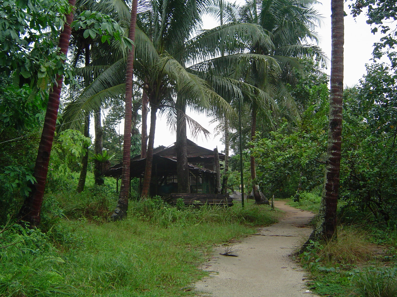 A house near the northern coast of Pulau Ubin, Singapore.